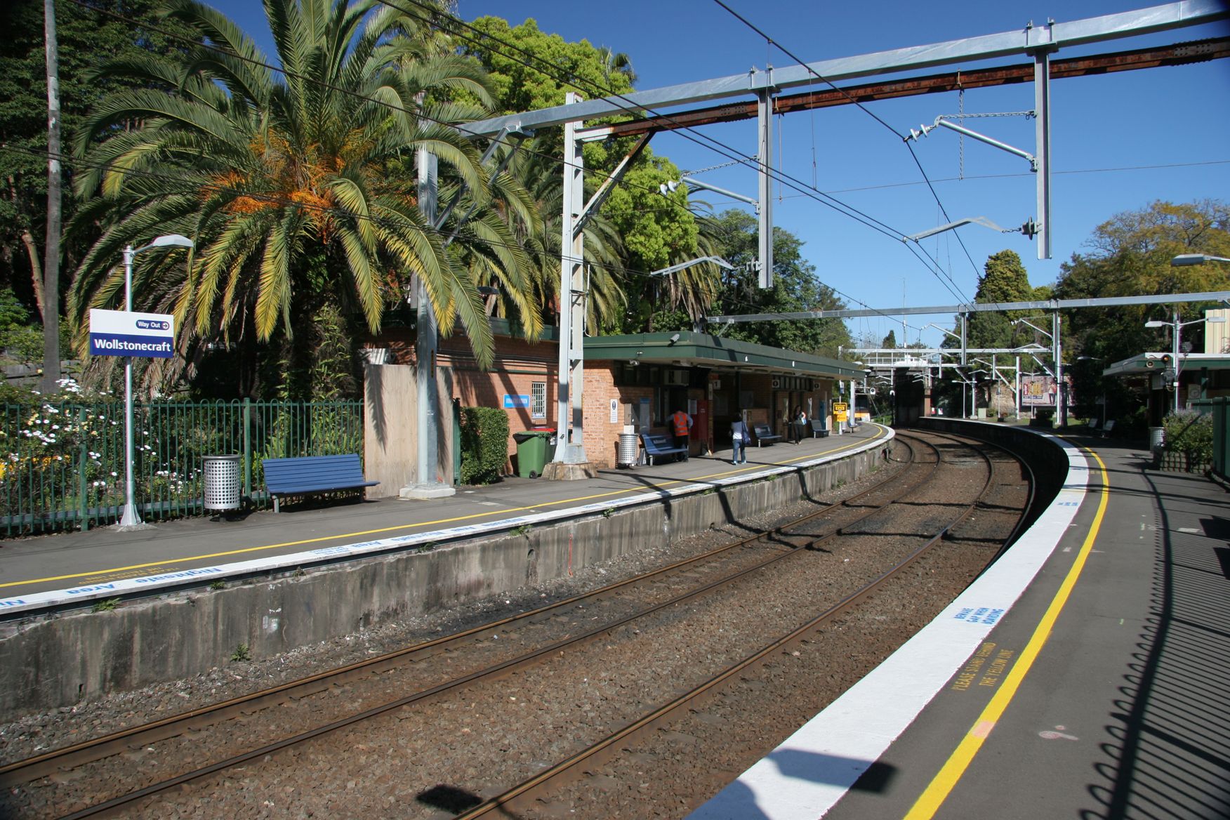 Wollstonecraft railway station, New South Wales, Australia. Facing south. Taken 5 September 2006.